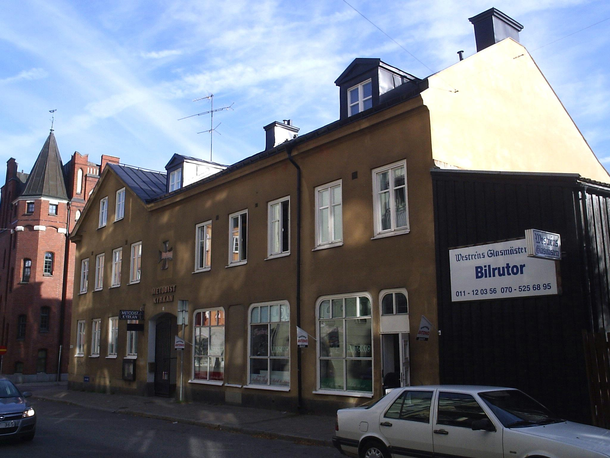 Photo by Harri Blomberg.